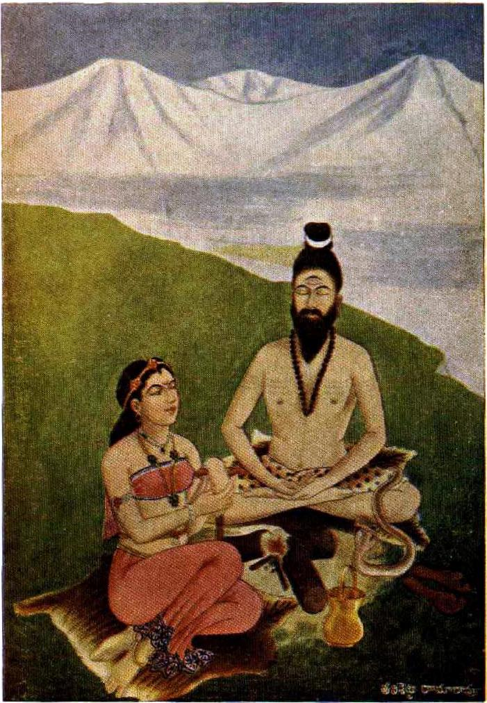 This painting of Talishetti Ramarao is taken from Bharati Telugu Monthly Magazine March 1932